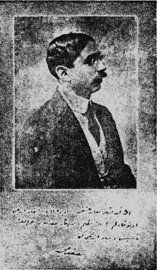 Mustafa Suphi, one of the early Turkish communists, first general chairman of the Communist Party of Turkey.